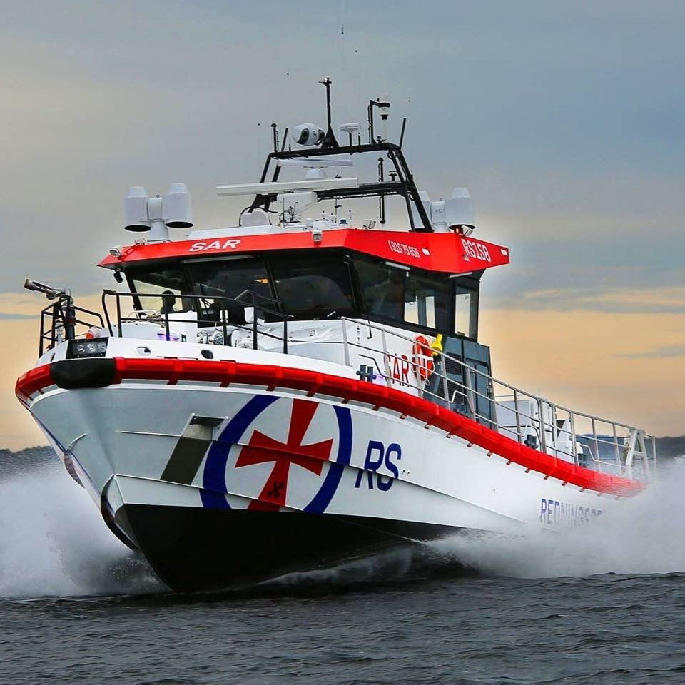 Swede Ship Marine N485 - RS Idar Ulstein